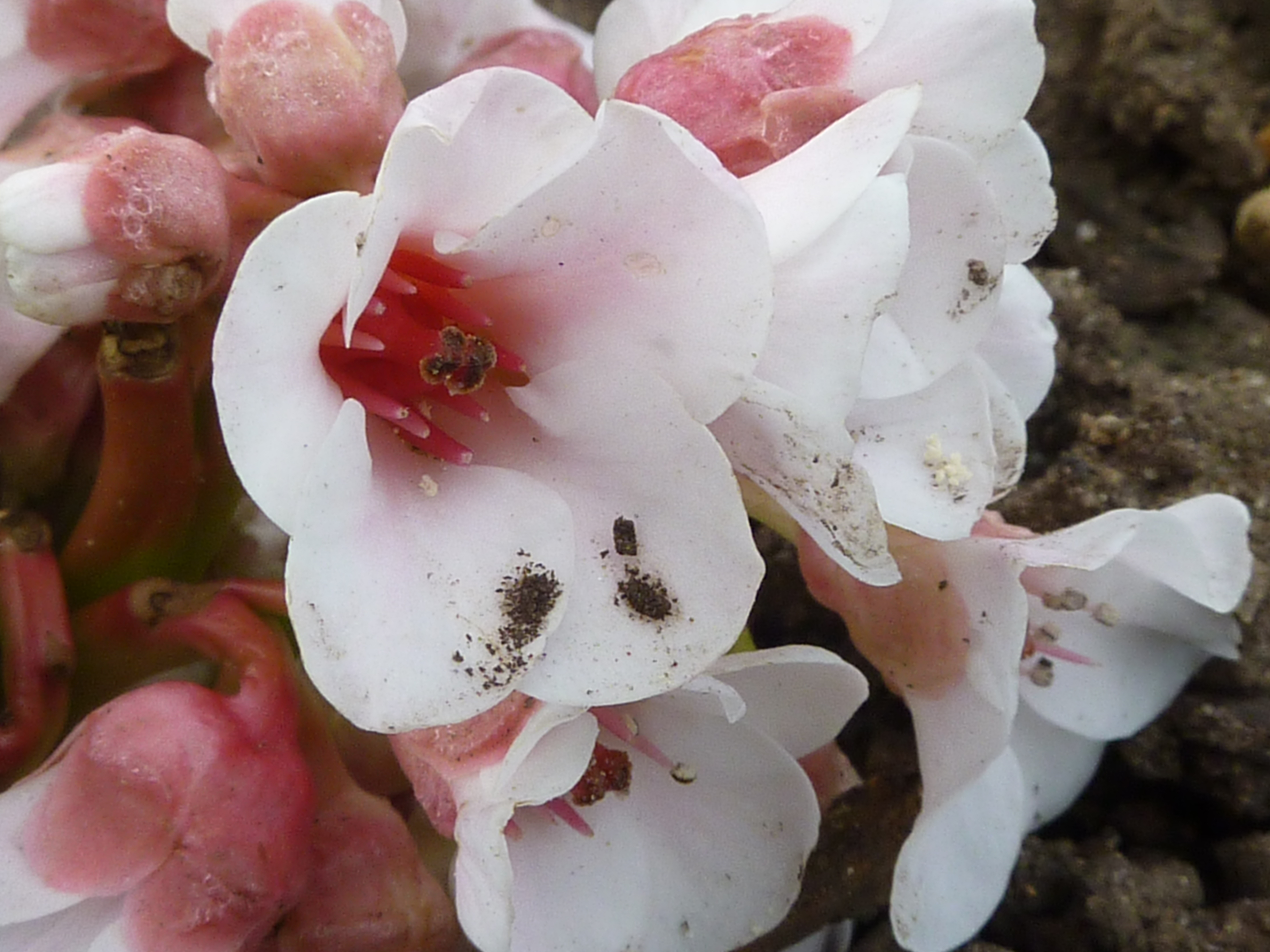 Taken in the Cambridge University Botanic Garden.